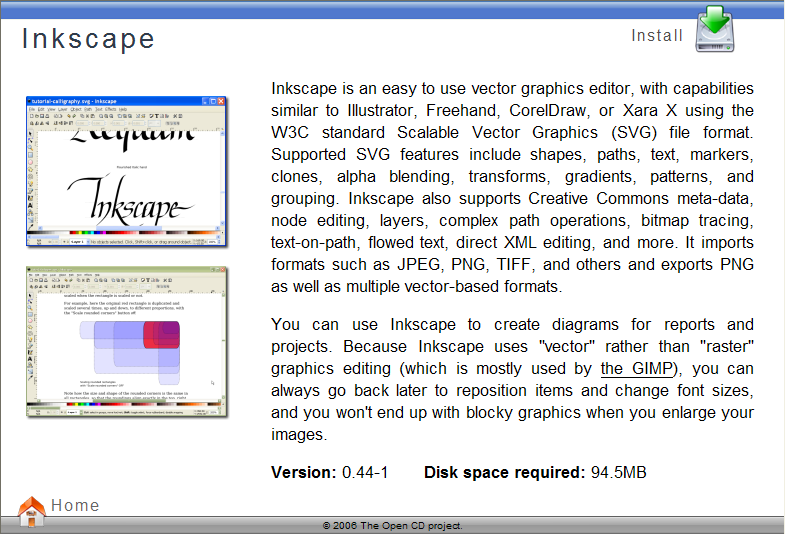 The OpenCD 4.0 Inkscape program page.